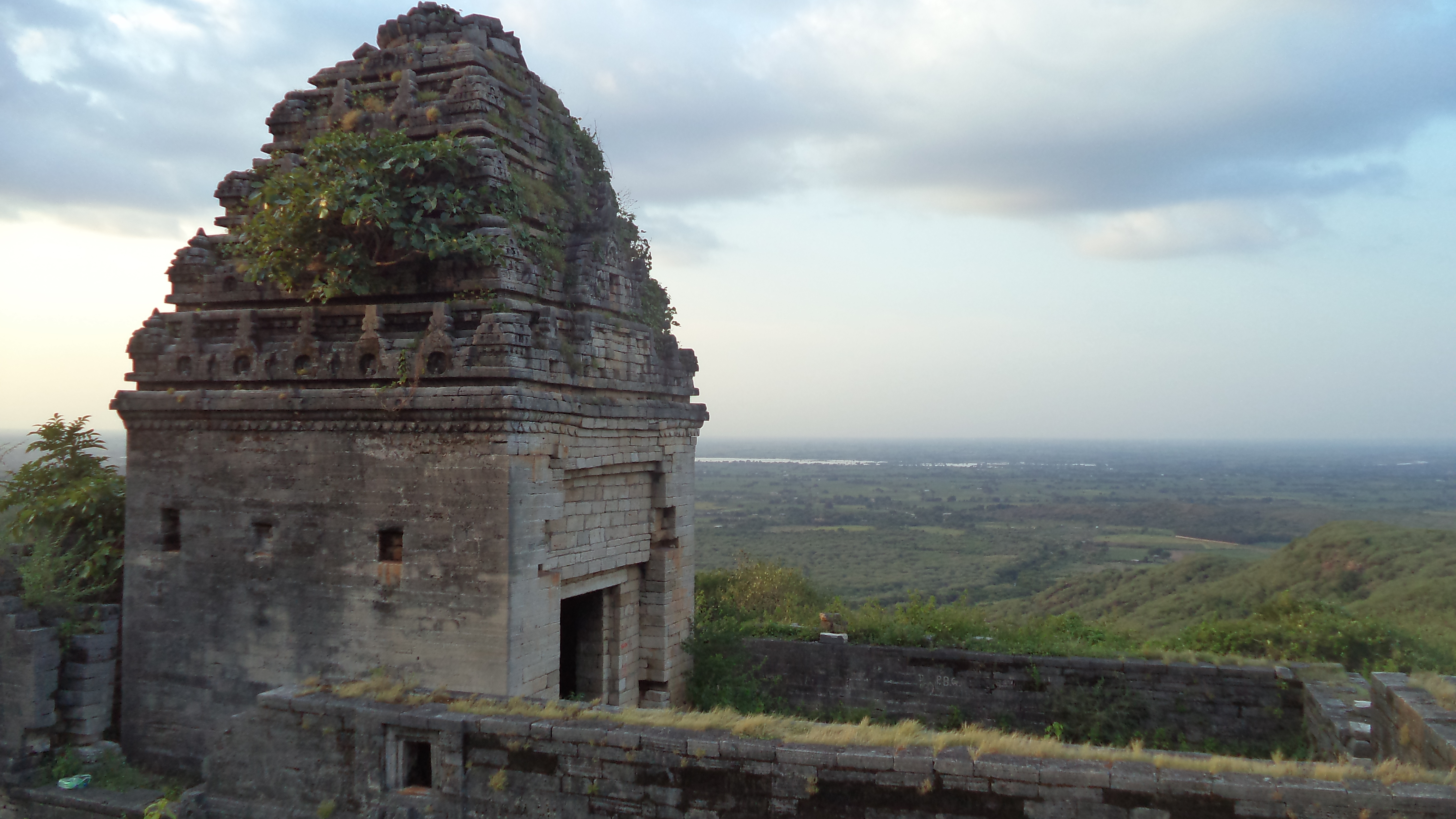 Sonakansari, Bhanvad, Gujarat (India)